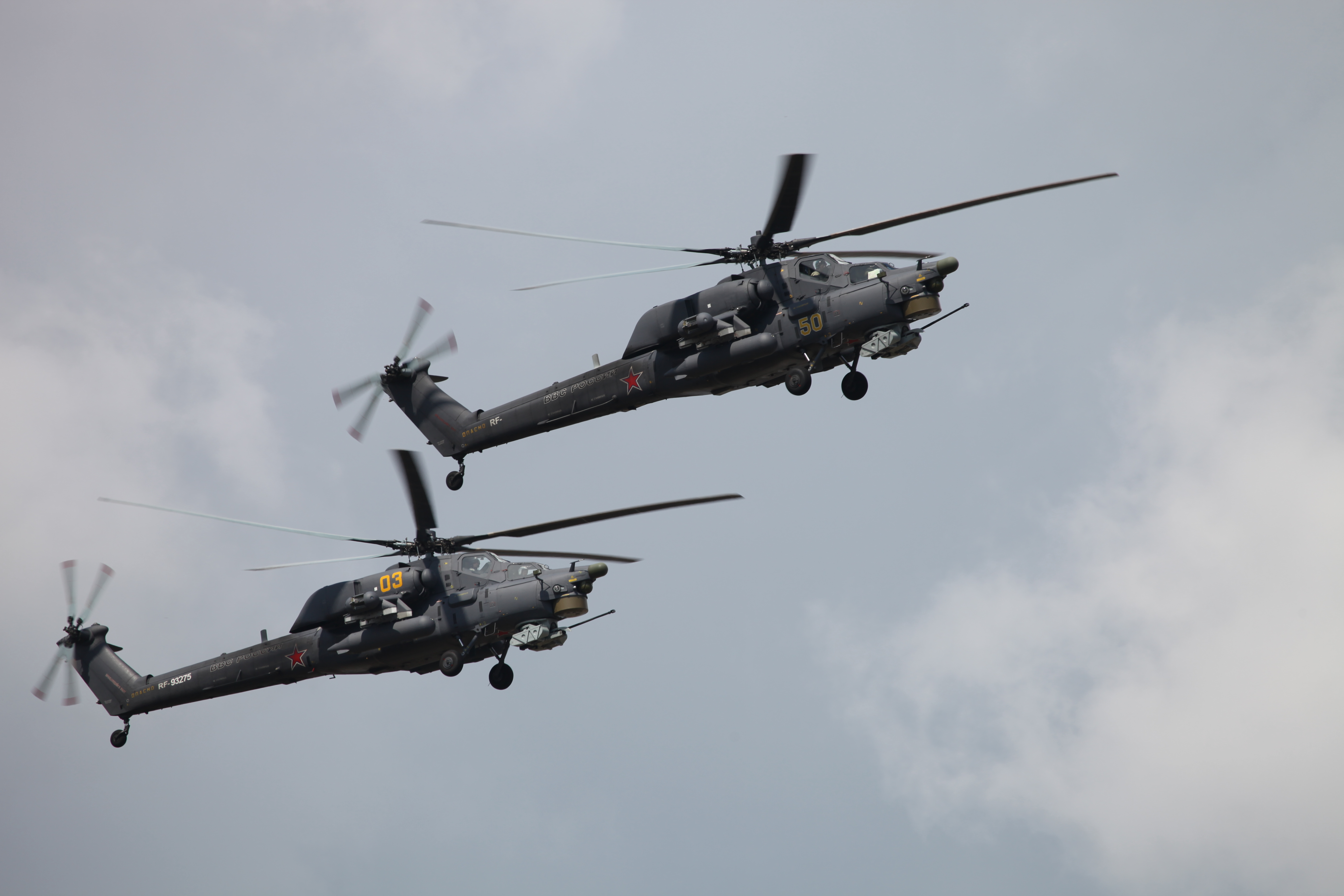 Aircraft at the Celebration of the 100th anniversary of Russian Air Force.